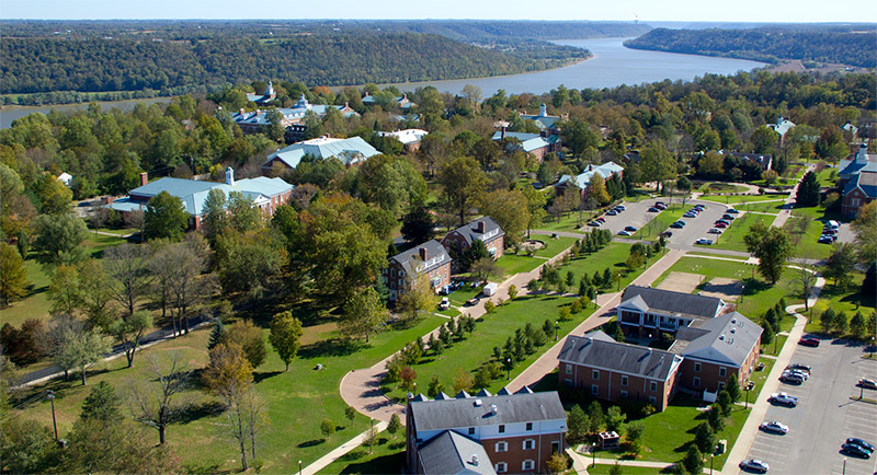 Aerial photograph of the Hanover College campus, shot facing west-southwest.